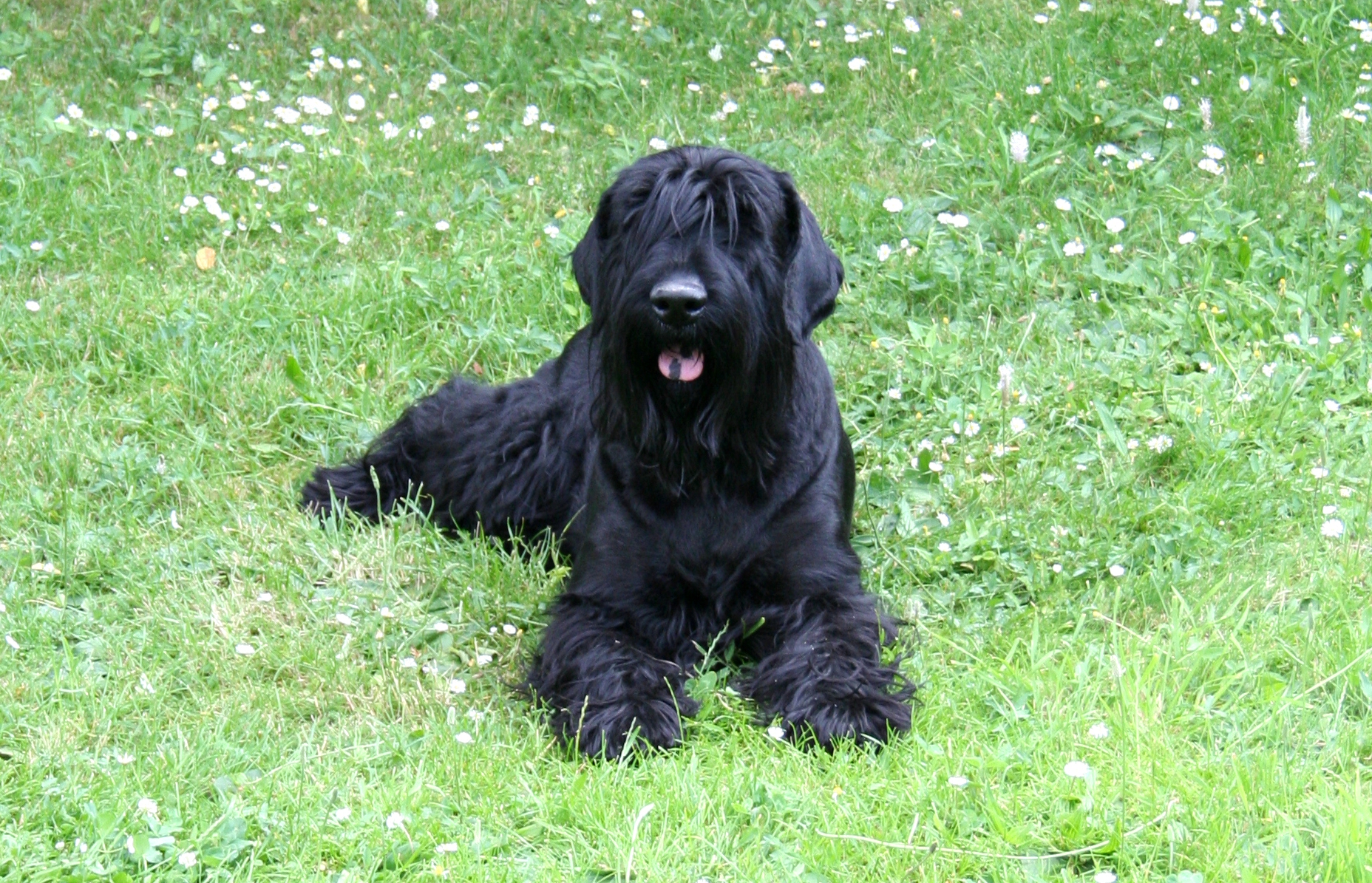 Tchiorny Terrier